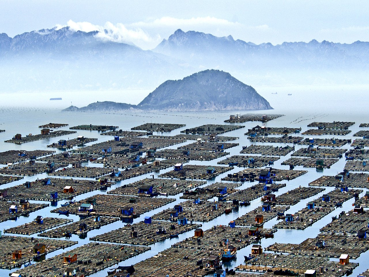 Lianjiang county qida village, Fujian province, China.